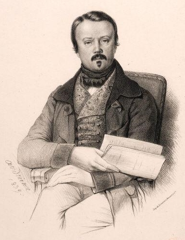 French actor and playwright Adolphe Lemoine (a.k.a. Lemoine-Montigny or Montigny) (18??-1880)